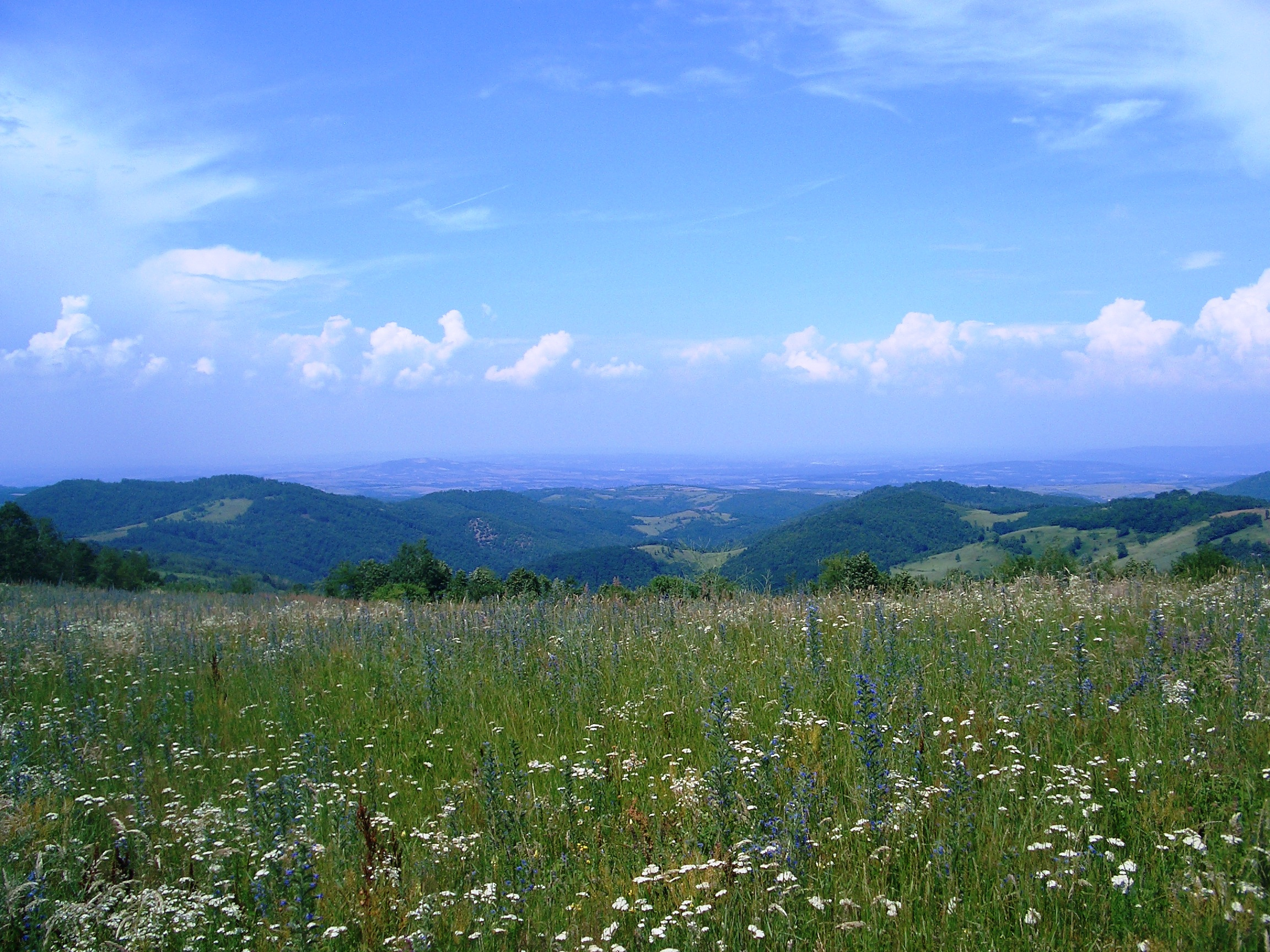 image of Šumadija